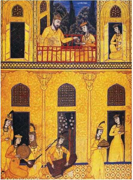 Muhammad Mukim. Bakhram Gur in the Yellow Pavillion. Seven beauties of Nizami Ganjavi. Khamse. Bukhara. National Library of Russia, Saint-Petersburg